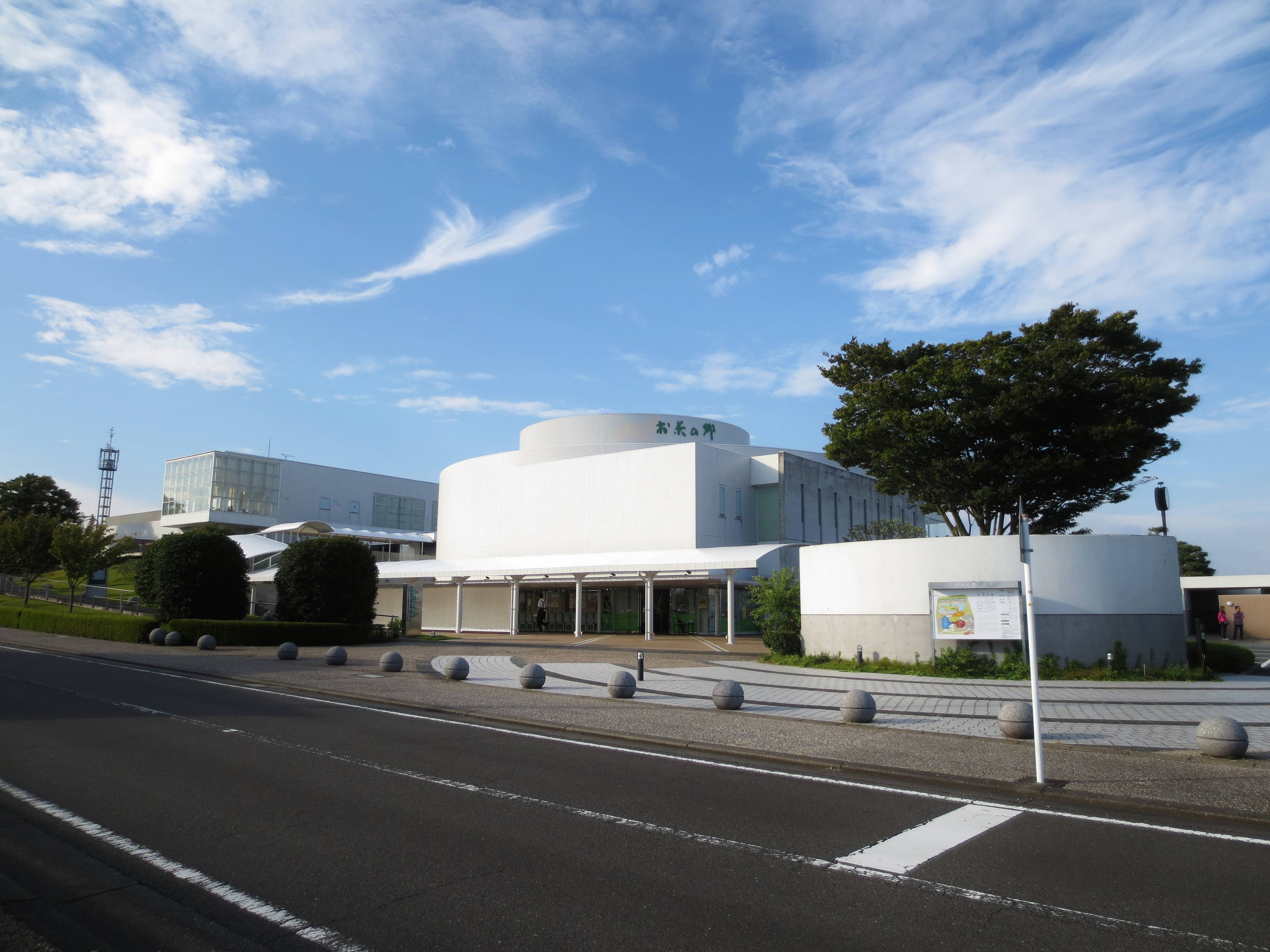 World Tea Museum.